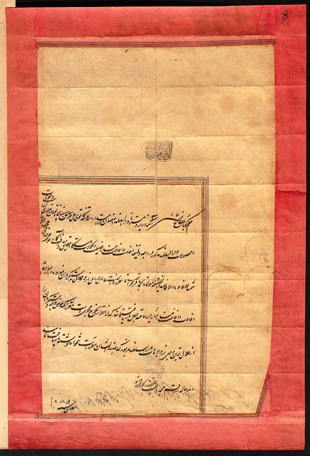 State Paper- Order / Firman of Shah Abbas II, granting a yearly pension of fifty Tumans to Muhammad Baqir Khorasani-1658-1068 A.H. British Library Or. 4935, VIII C. Rieu’s Supplement to the Catalogue of Persian Manuscripts in the British Museum 1658 AD pp. 255-6 A4 Paper copies ‘VIII. 10 1/2 in by 7 ½ in. Purchased by J. H. Churchill on May 15, 1895